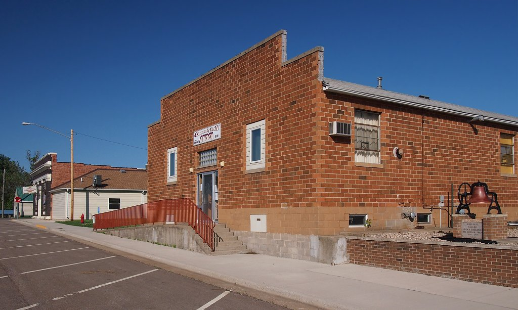 Avoca Community Hall and other buildings, SW 2nd St, Avoca, Minnesota, USA. View to the east.